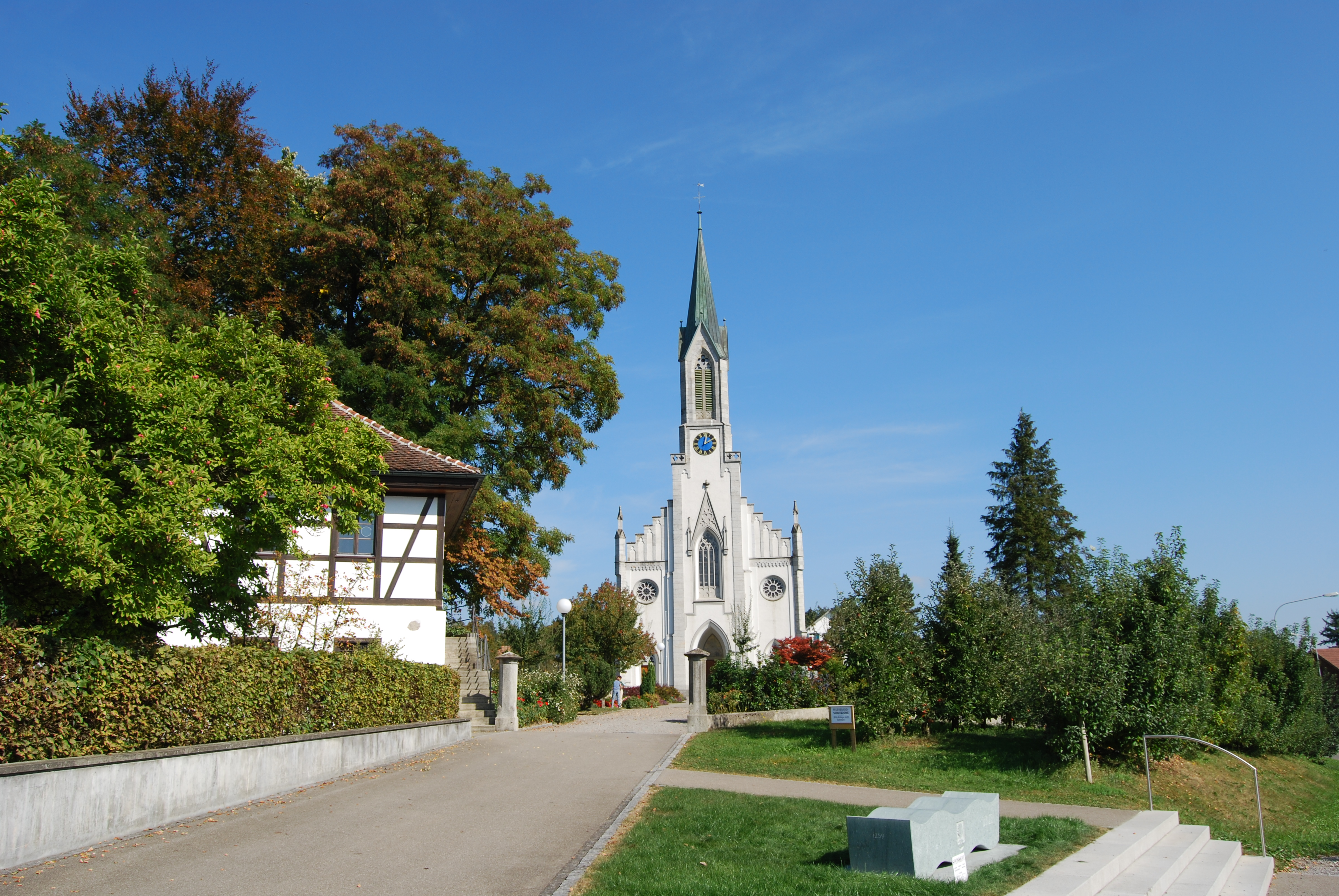 Church of Bünzen, canton of Aargau, SwitzerlandEsperanto: Preĝejo de Bünzen, Kantono Argovio, Svislando